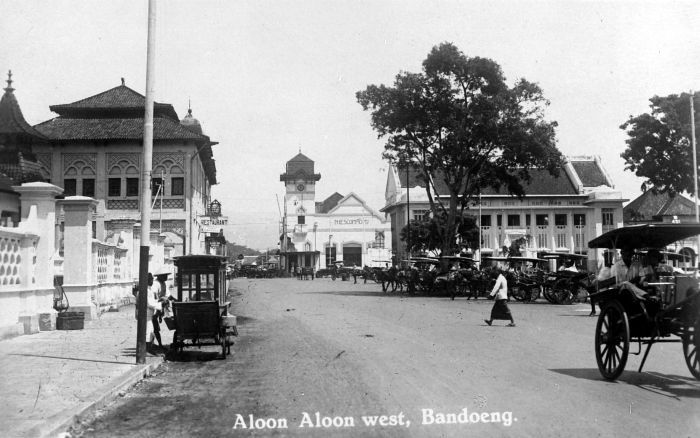 'Aloon-aloon West'